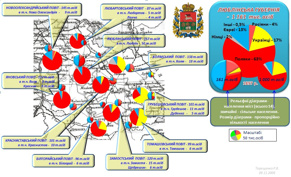 Ethnic groups according to the Lublin province census 1897